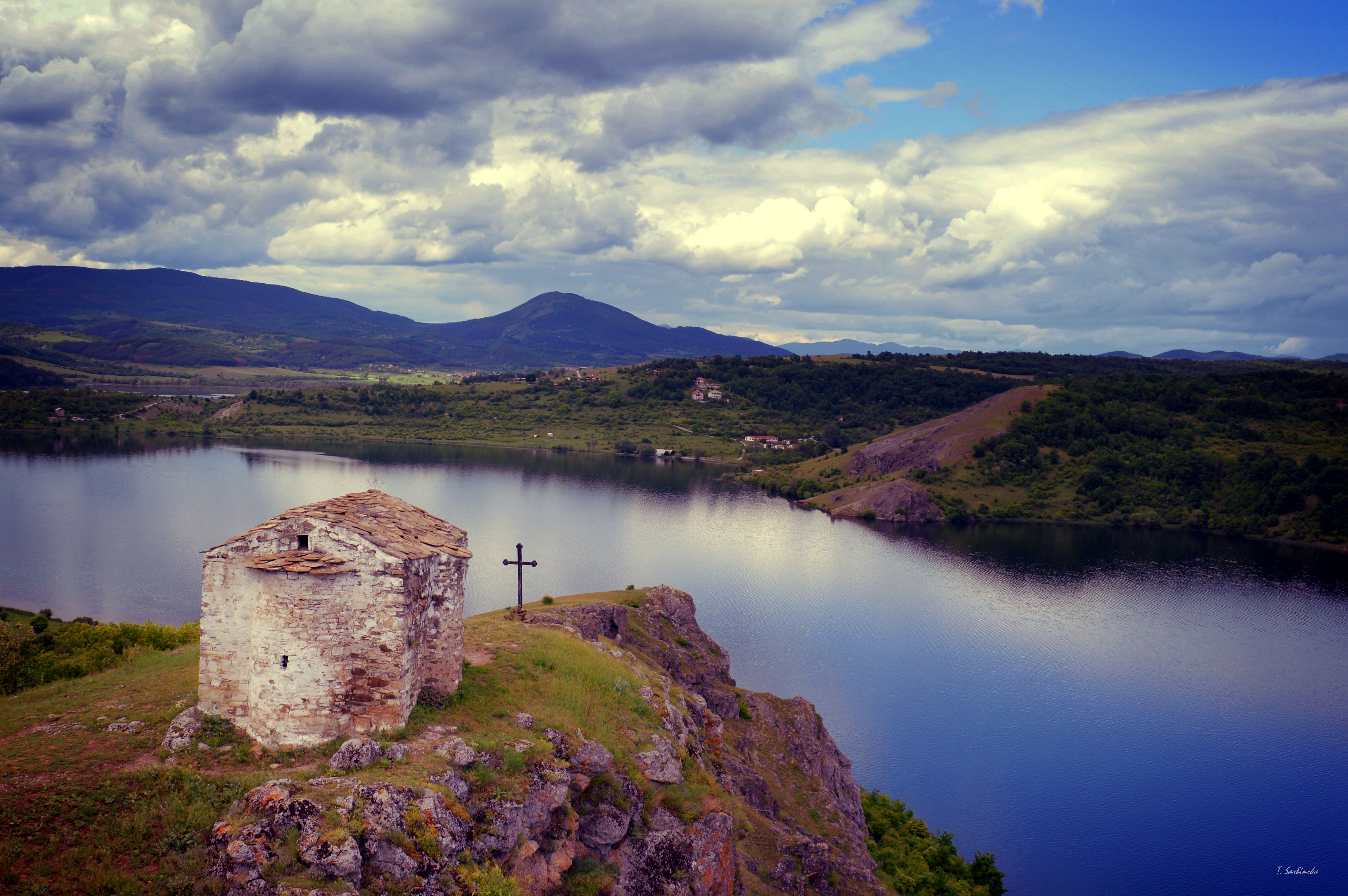 Non-functioning medieval church “St. Ioan Letni”